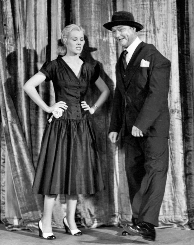 Photo of Red Skelton as Willie Lump-Lump and Lucille Knoch on The Red Skelton Show.